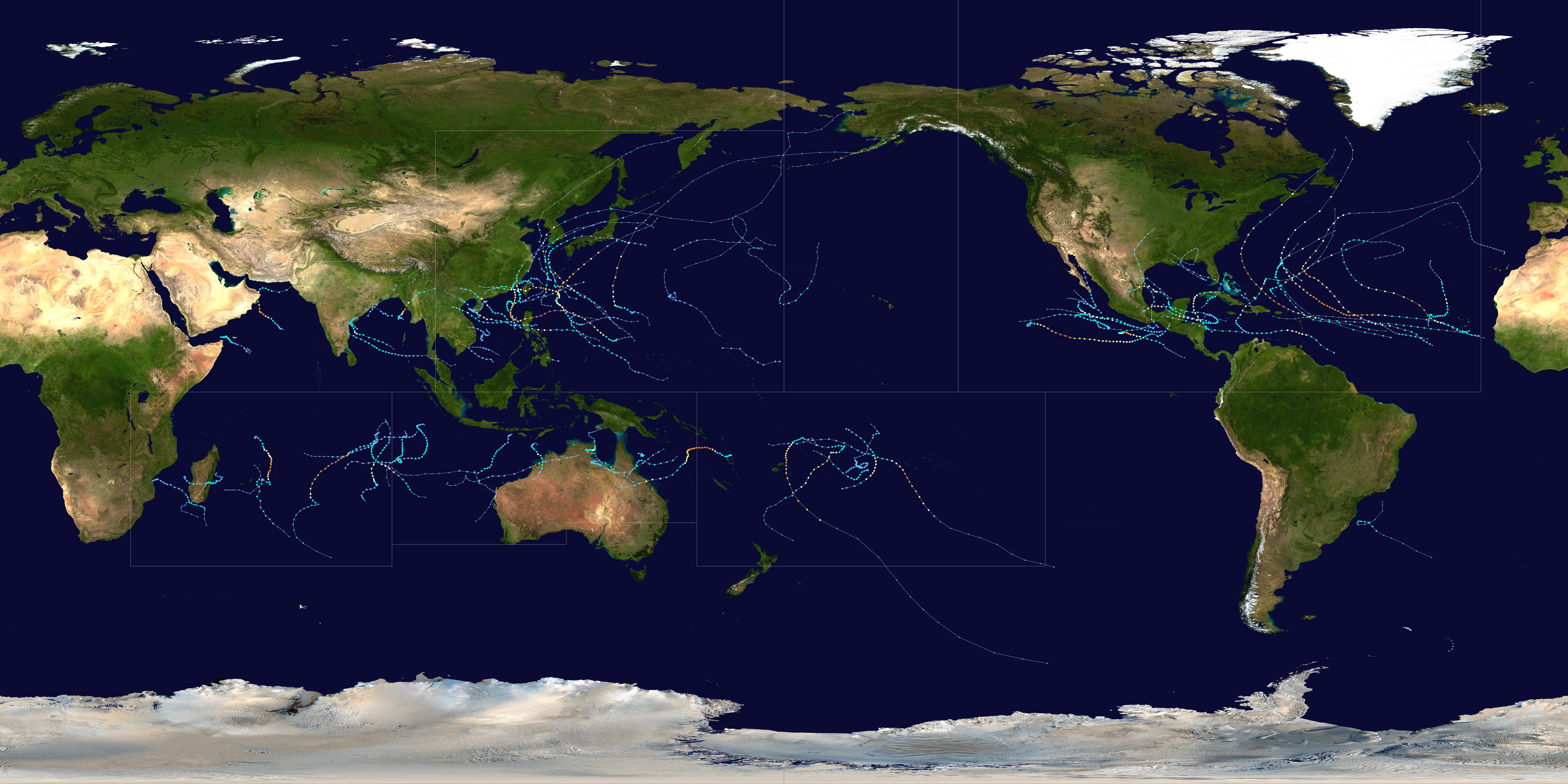 Tropical cyclones worldwide in 2010